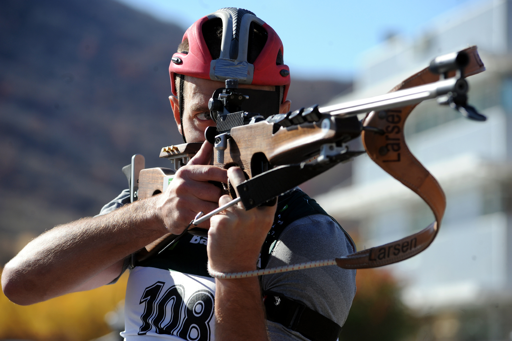 U.S. Army World Class Athlete Program biathlete Sgt. Jeremy Teela, a three-time Olympian, practices shooting from the standing position Oct. 21, 2009 at Soldier Hollow, Utah. Photo by Tim Hipps, FMWRC Public Affairs (US Army).